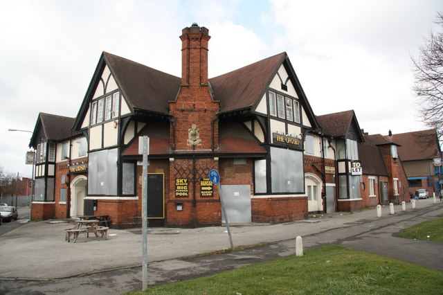 The Crosby Hotel. Large former hotel built in 1910, now closed and boarded up.